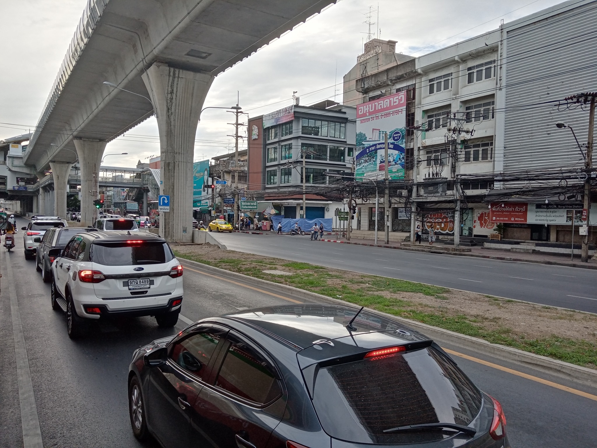 Bang Khae Junction.